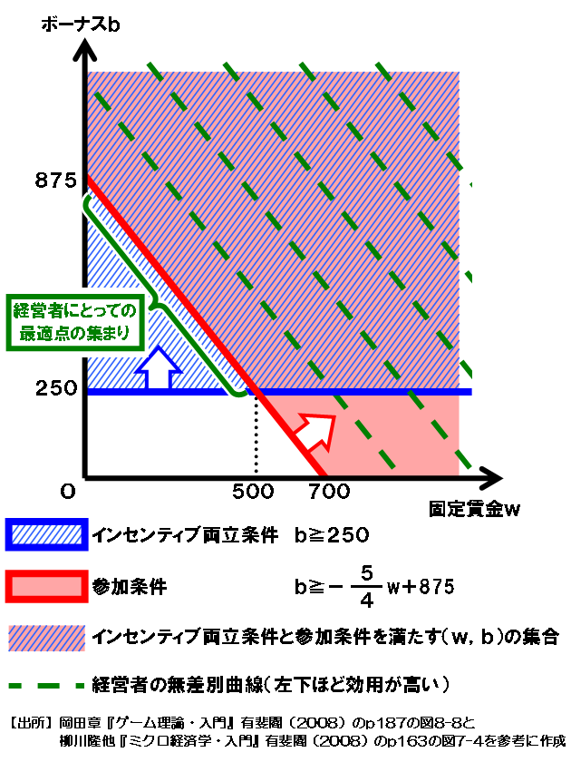 About incentive compatibility condition and participation condition in Principal-agent problem. The chart was made for the explanation of Principal-agent theory in Japanese Wikipedia in consultation with the following books. 岡田章 『ゲーム理論・入門-人間社会の理解のために』 有斐閣〈有斐閣アルマ〉、2008年、187頁、図8-8。 柳川隆、町野和夫、吉野一郎 『ミクロ経済学・入門-ビジネスと政策を読みとく』 有斐閣〈有斐閣アルマ〉、2008年、163頁、図7-4。